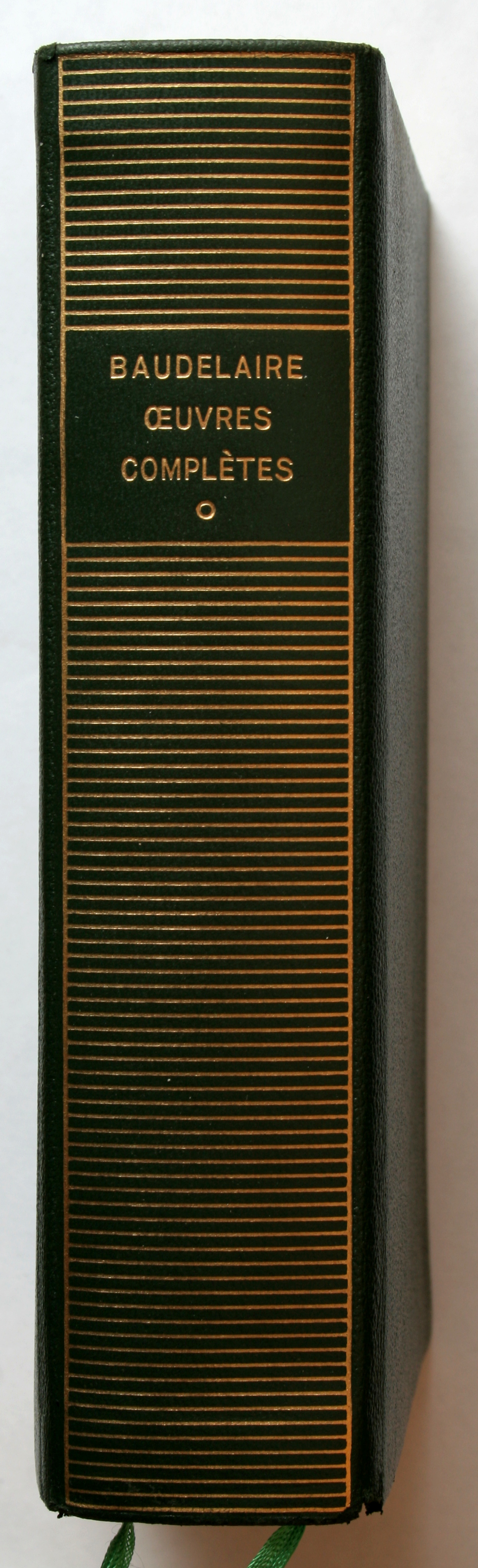 Baudelaire, published by Gallimard, collection La Pléiade, back binding, soft full skin cover and gilded with fine gold (23 carats).